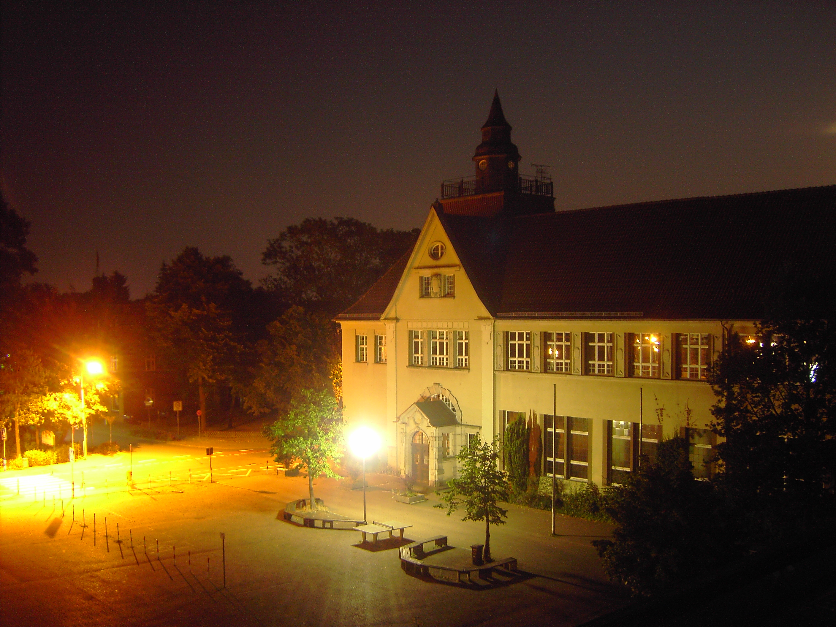 Town of Bünde, District of Herford, North Rhine-Westphalia, Germany: Grammar school at Bünde market.